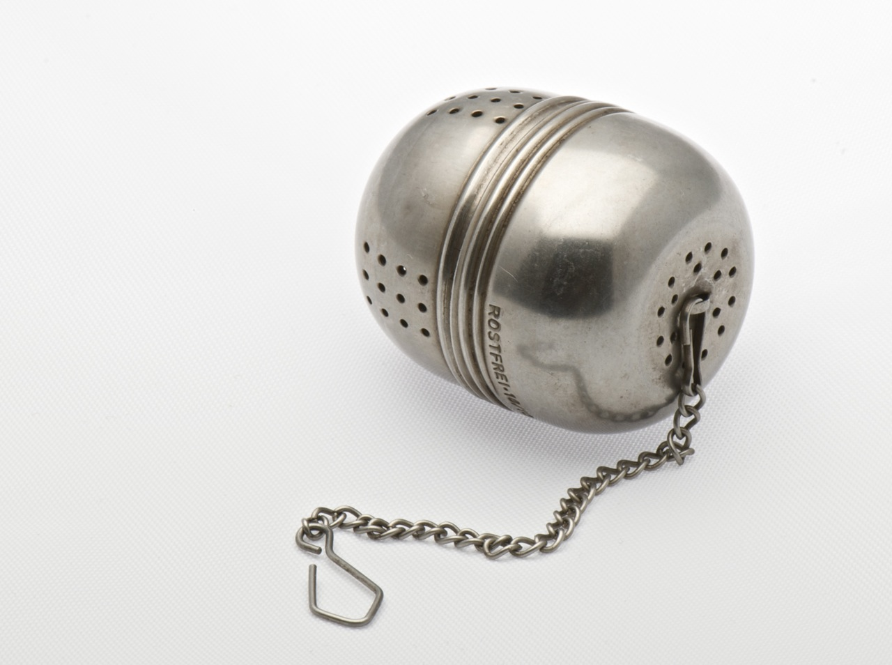 A stainless steel tea infuser.